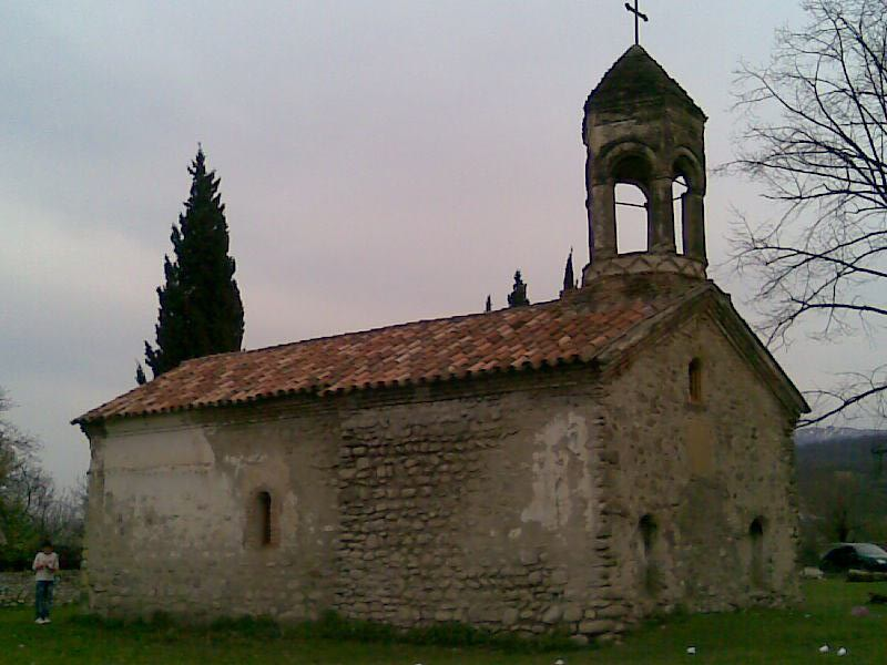 Church_of_Zemo Khodasheni